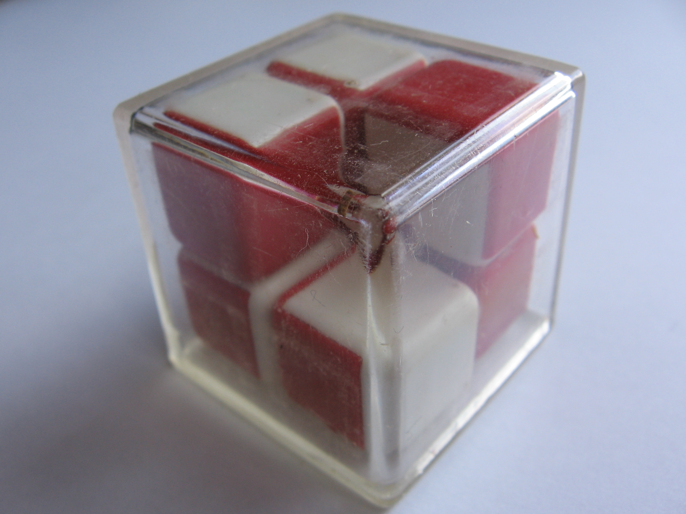 The Minus Cube puzzle. A photo is taken by User:Cmapm.